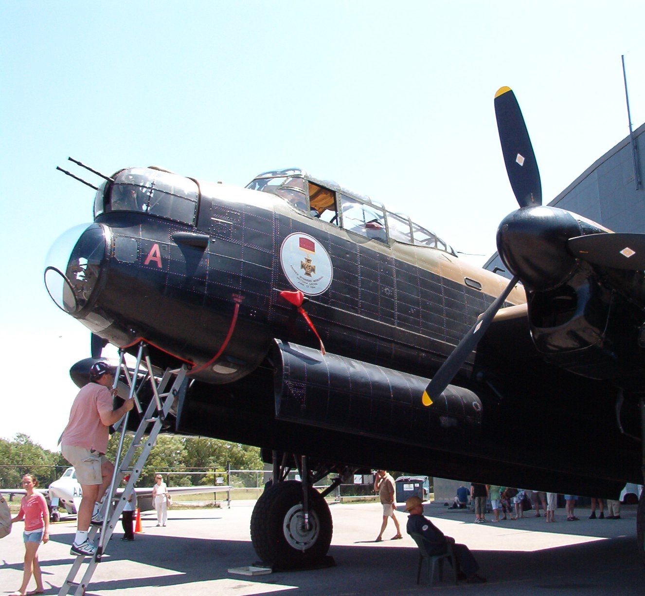 I took this image on Sunday, June 17, 2007 at the Canadian Warplane Heritage Museum in Hamilton, Ontario, Canada. It is for use in the Wikinews reporter attends warplane airshow in Hamilton, Ontario, Canada article.